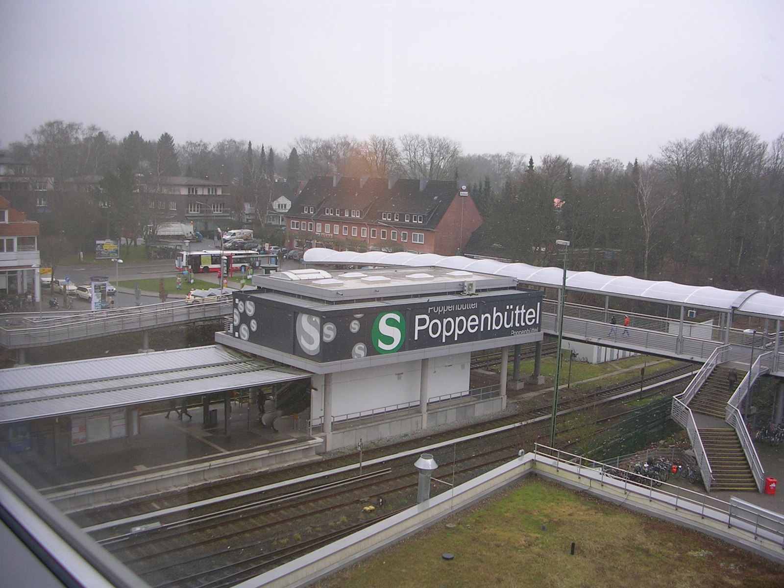 Terminal S-Bahn station (suburban train) in Hamburg-Poppenbüttel, on the lefthand side barrier-free transit to departure area for southbound buses at Stormarnplatz